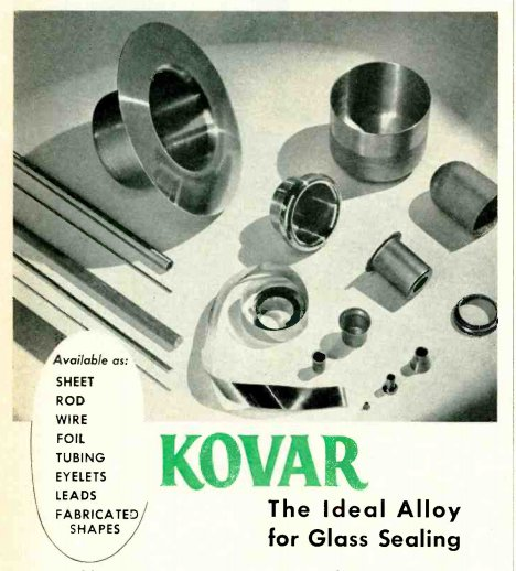 An assortment of Kovar metal shapes from an advertisement in an electronics magazine. Kovar is a nickel-cobalt ferrous alloy used to make metal-to-glass seals in vacuum tubes and other scientific vacuum systems because it has the same thermal expansion as glass. Alterations to image: cropped out ad copy